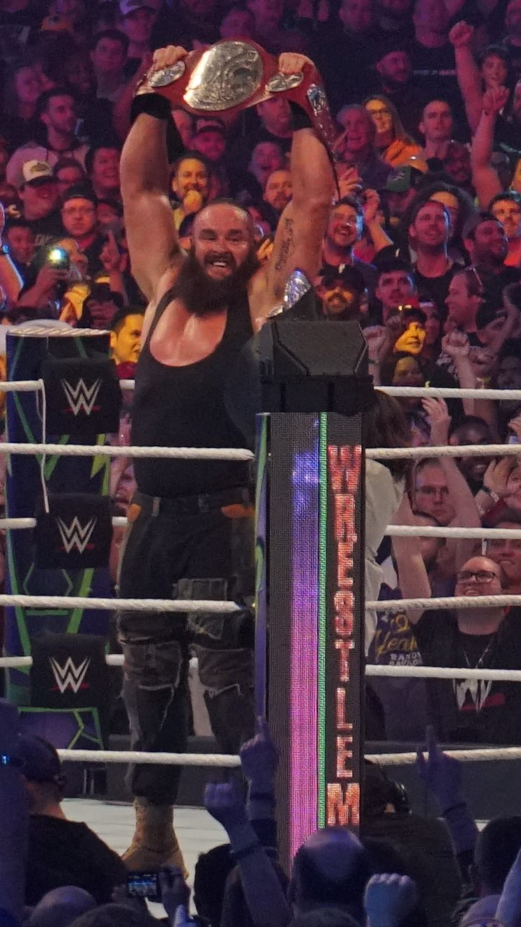 Braun Strowman after winning the WWE Raw Tag Team Championship at WrestleMania 34.